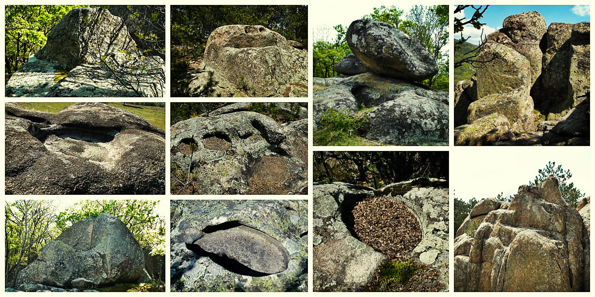 Kachulata Sanctuary Streltcha BG